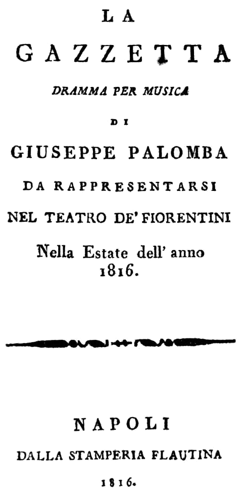 Gioachino Rossini - La gazzetta - titlepage of the libretto - Naples 1816